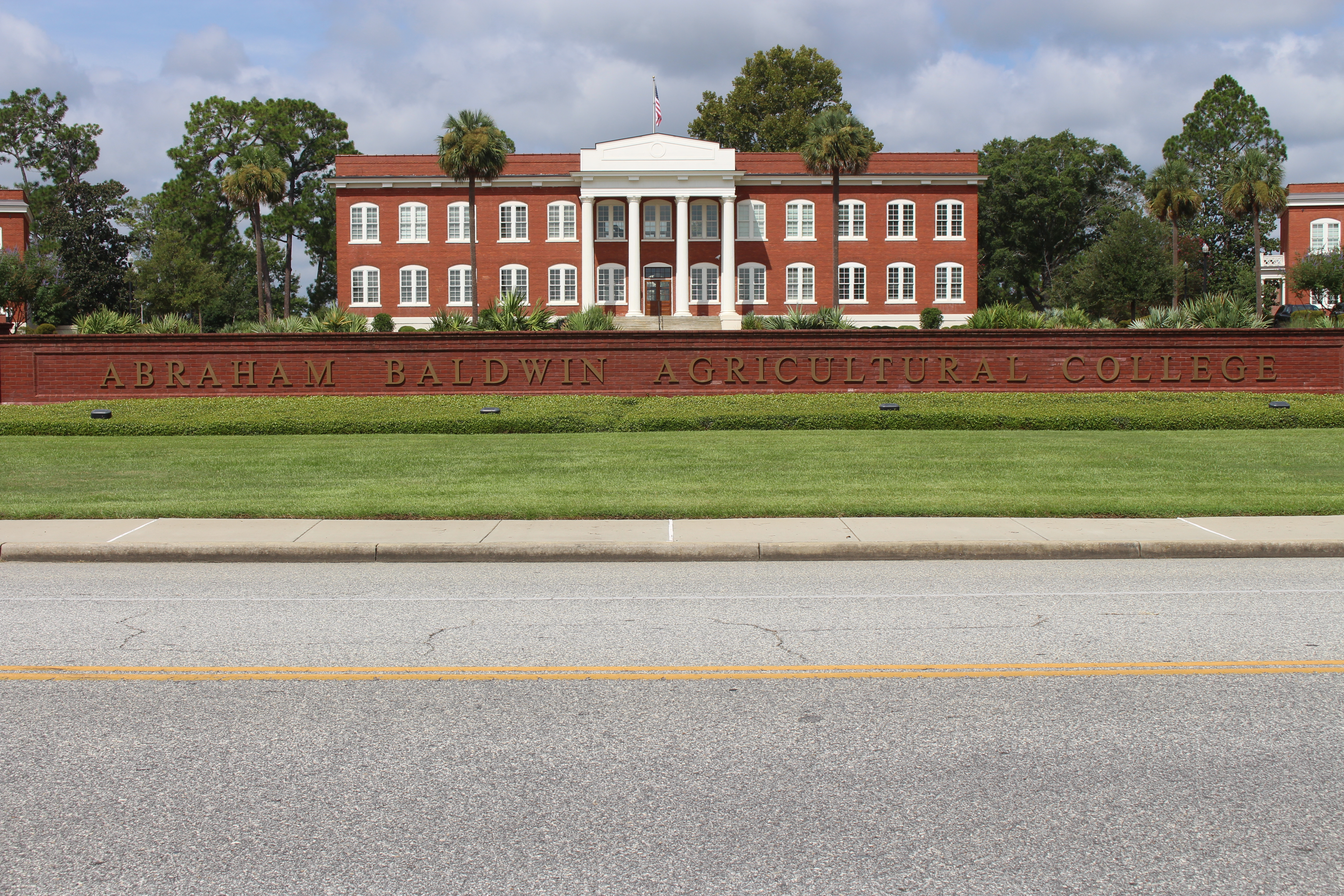 Abraham Baldwin Agricultural College, Tifton, Tift County, Georgia